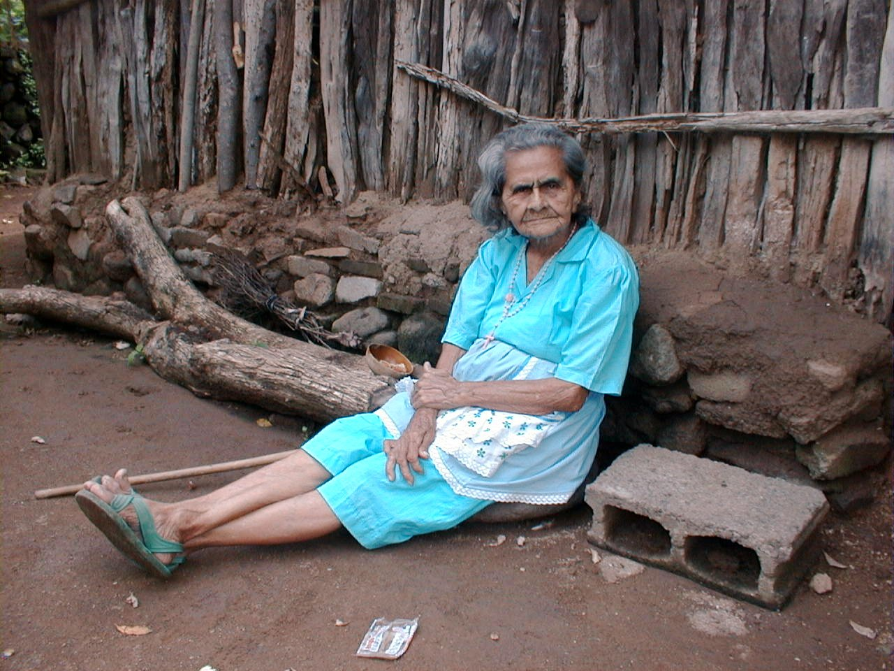 Old friend rest at road side, but there are no beggars in San Ramon. Camera Info: OLYMPUS SR83 Digital F-stop 2.8 Exposure 1/54 Create date: 1999:09:02 16:26:24 Contact creator at - Page also was a link called "San Ramon, Choluteca Honduras: 1999 first ' Village'" to access the full WEB collection.